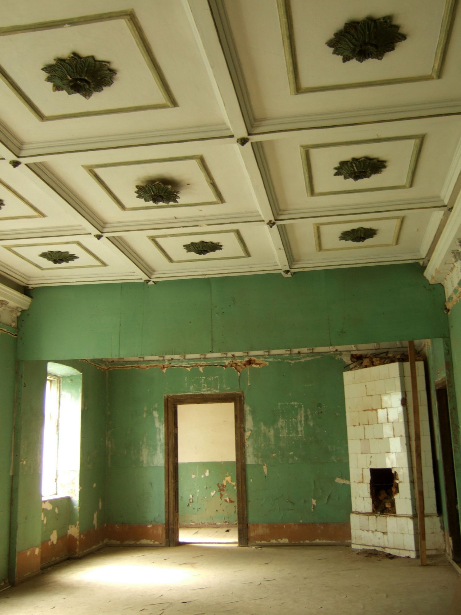 Belvederio dvaro rūmų interjeras